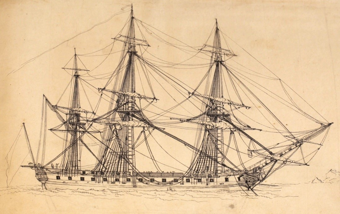 Frigate